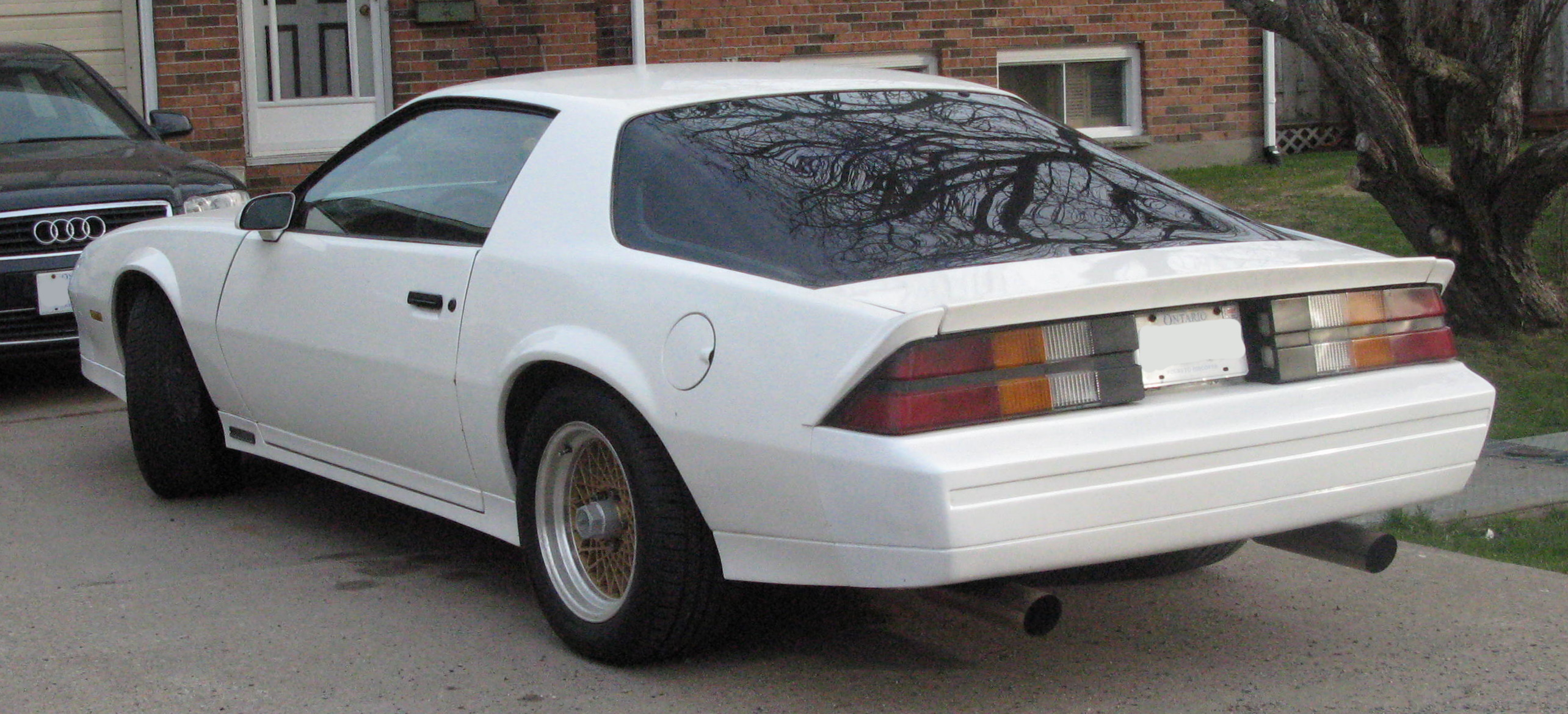 1984 Chevrolet Camaro photographed in Sault Ste. Marie, Ontario, Canada